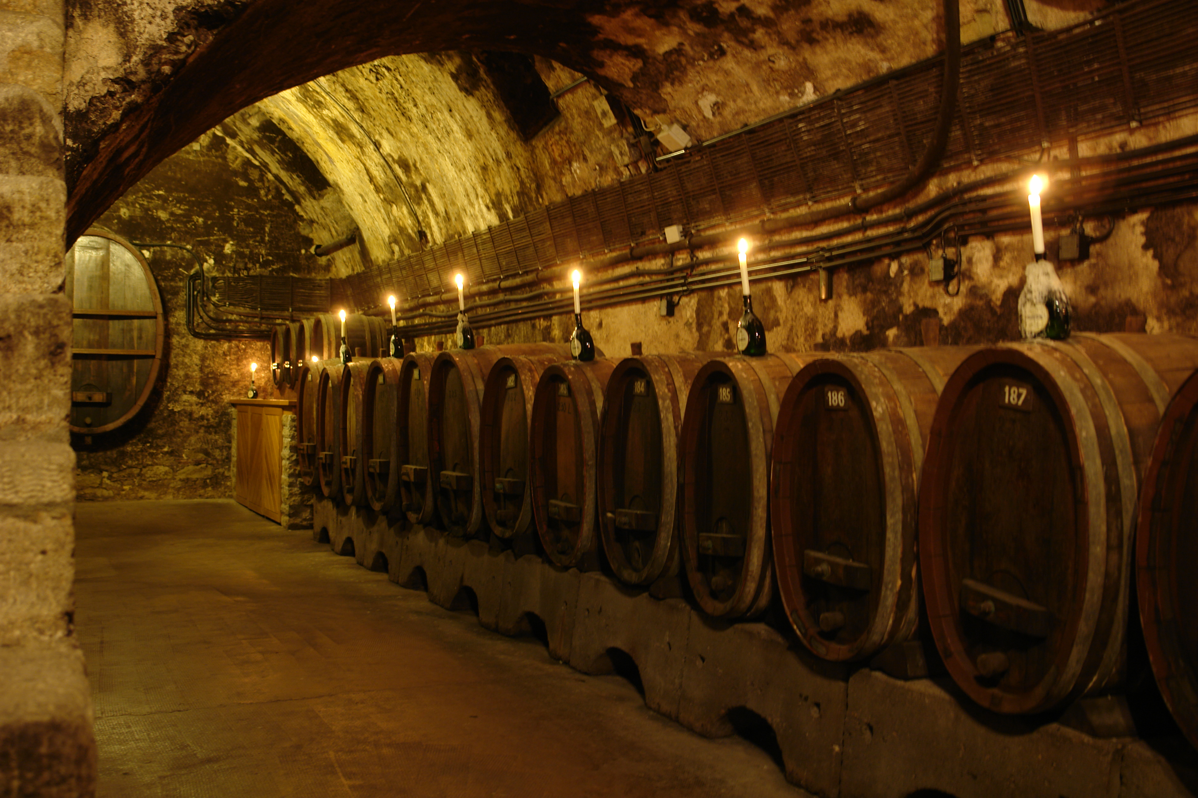 Wine cellar of the Würzburg Residence